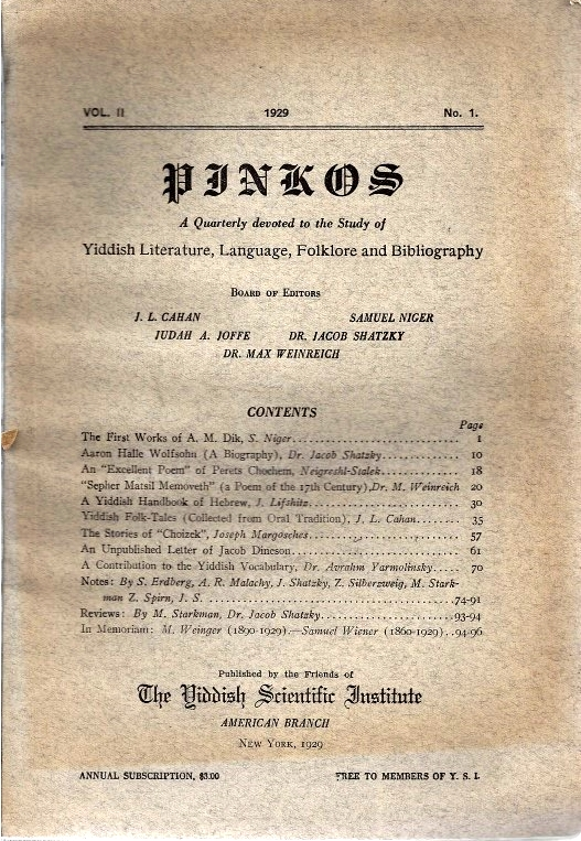 Pinkos, quaaterly publication on Jewish folklore